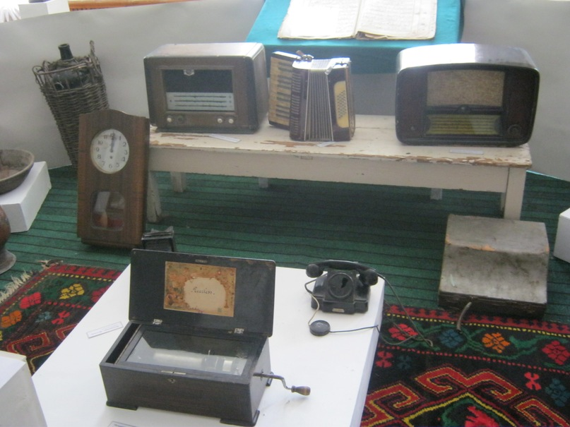 Retro stuff in the Museum of Local history, culture and geography in Akhty. Dagestan.